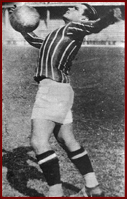 João Coelho Neto (preguinho) -Fluminense F.C. athlete